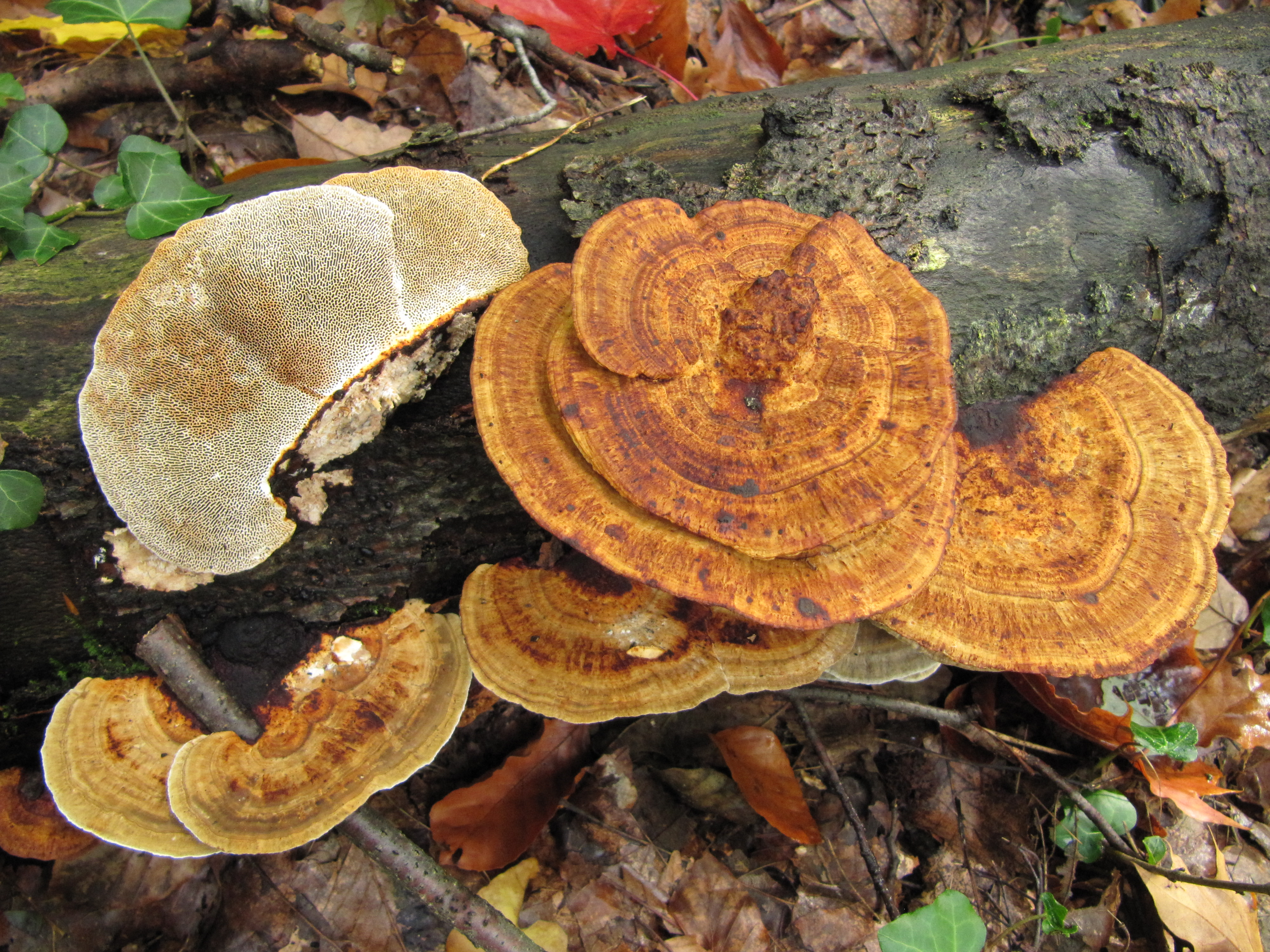 Daedaleopsis confragosa